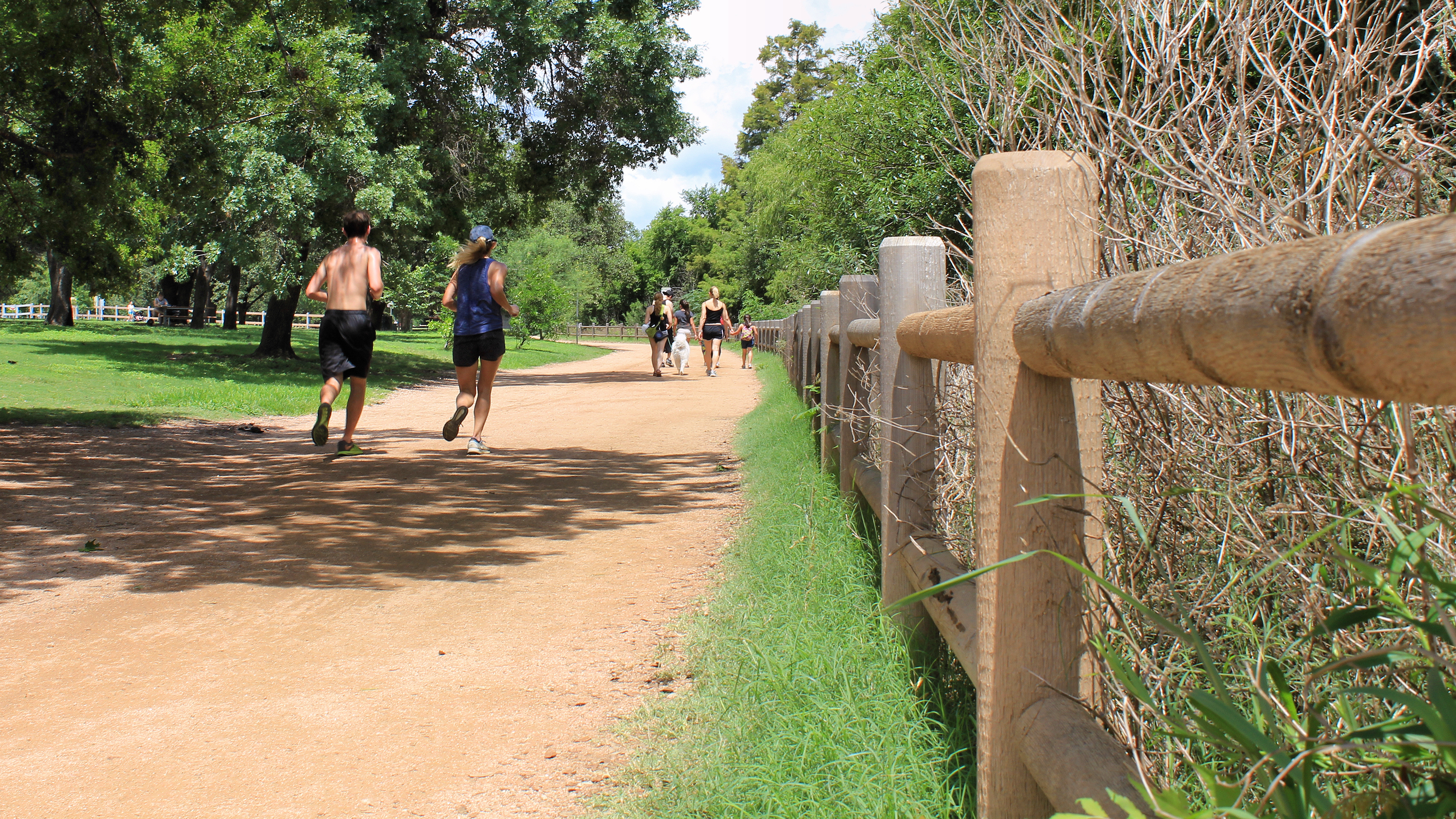 Runners and walkers on the Ann and Roy Butler Hike-and-Bike Trail, Austin, Texas, United States